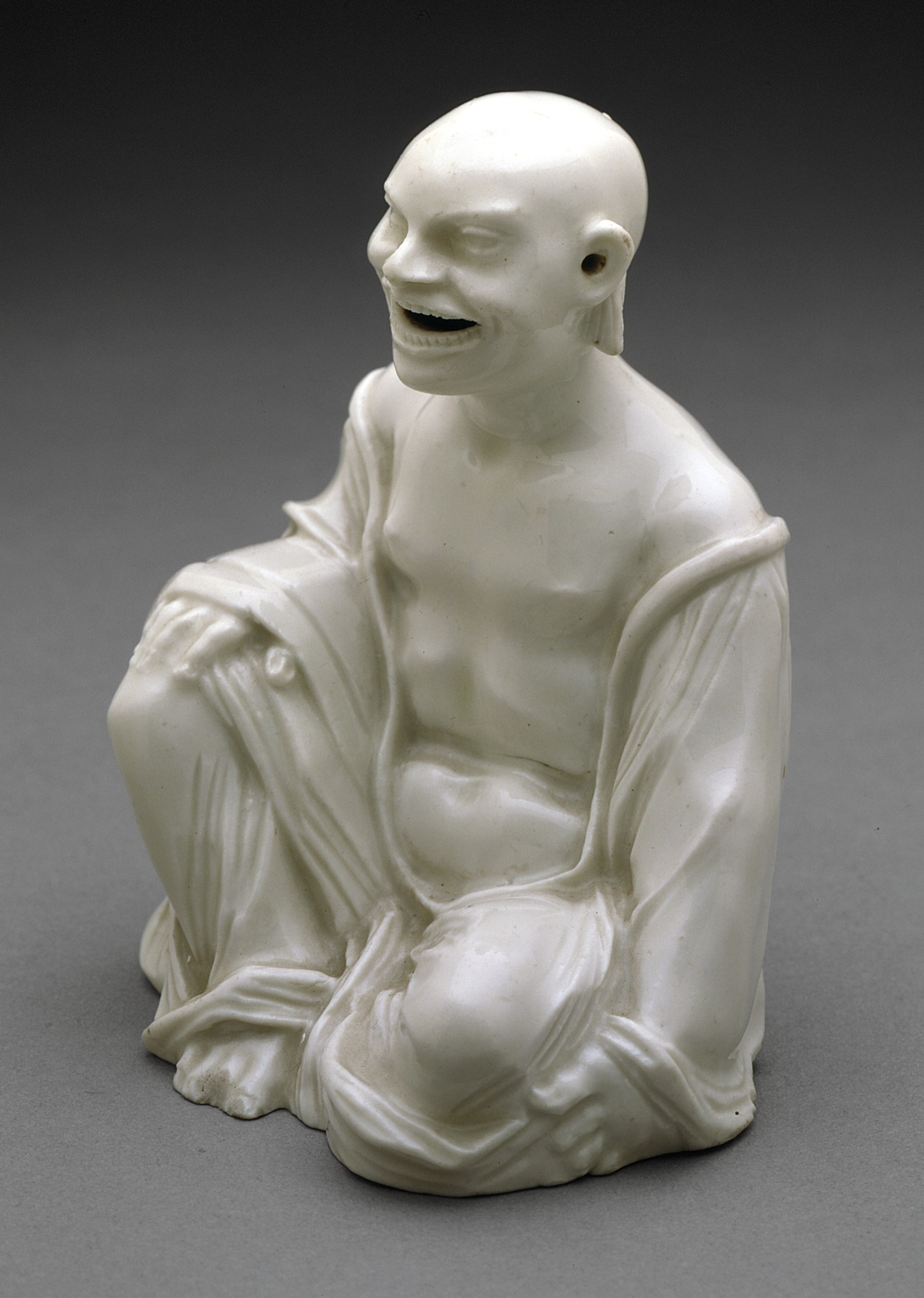 Germany, Saxony, Meissen, circa 1715 Sculpture Porcelain Purchased with funds provided by the William Randolph Hearst Collection by exchange (87.5.2) Decorative Arts and Design Currently on public view: Hammer Building, floor 3